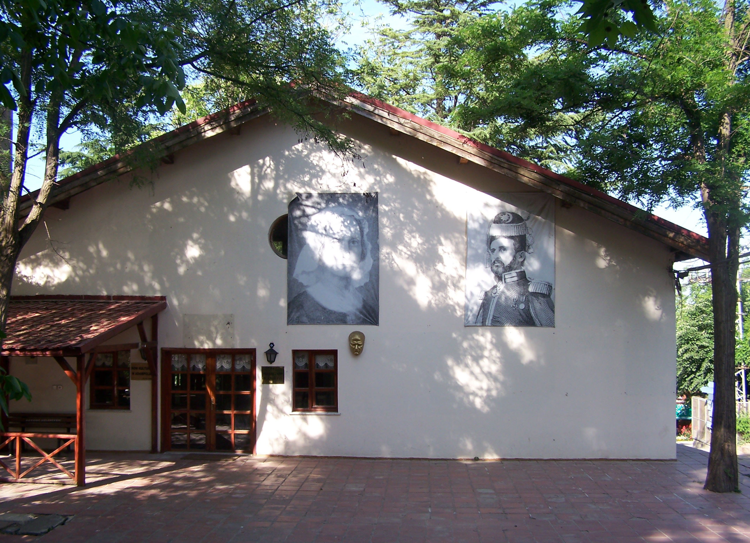 Culture House (Dom Kultury) in Polonezköy